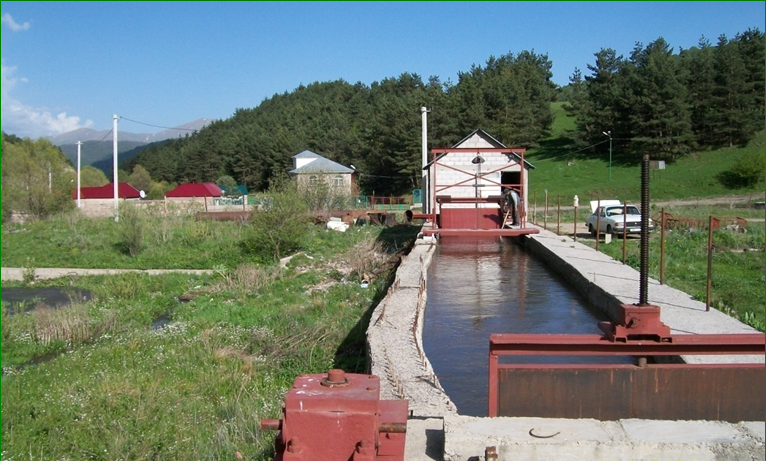 A canal and a small hydro power plant in Armenia